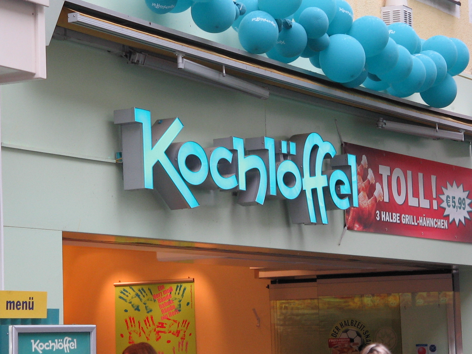 The logo of the Kochlöffel Fastfood Restaurants, Breite Gasse/Nuremberg/Germany